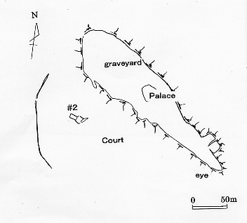 a illustrated map of Mapungubwe hill